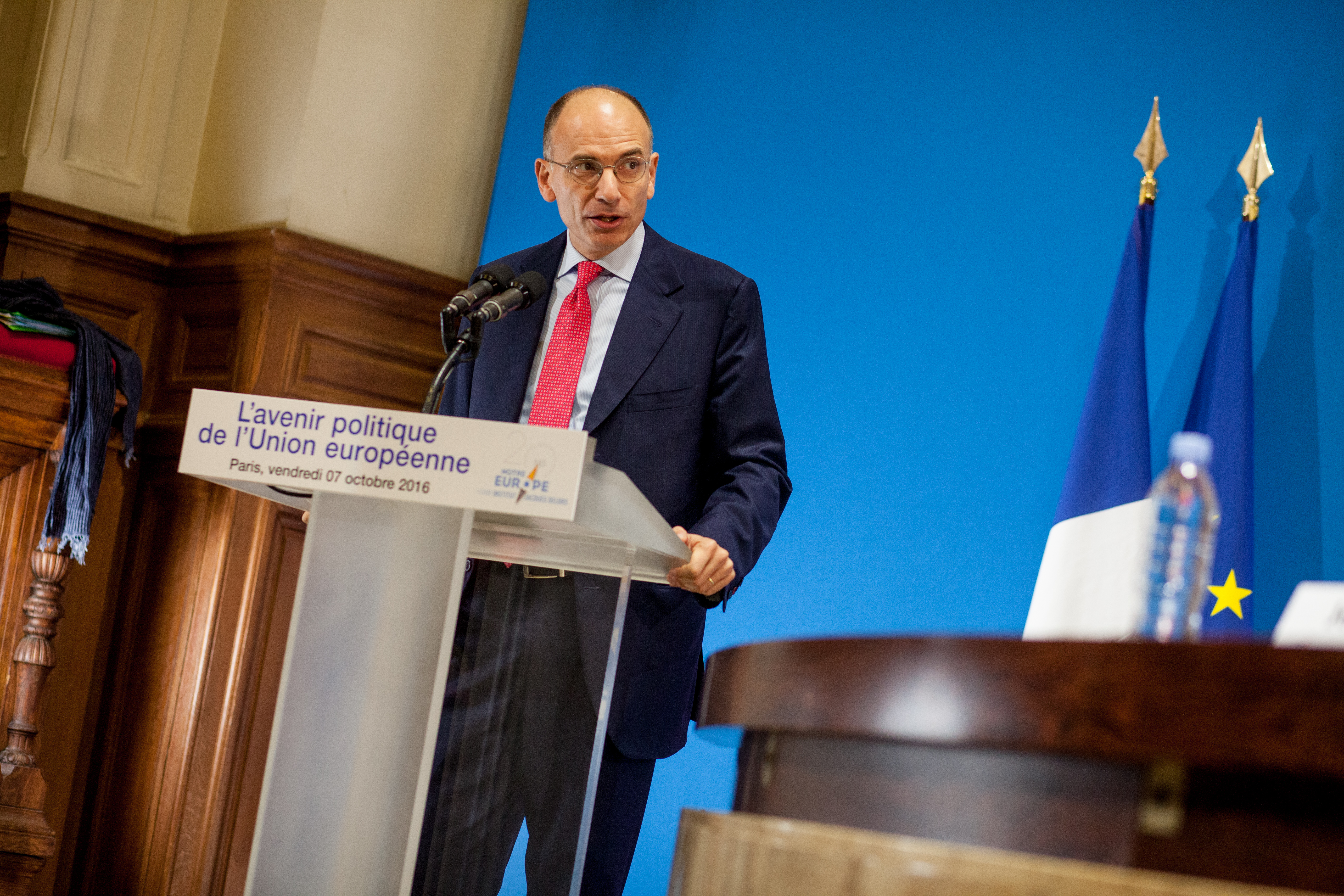 20 ans de l'Institut Jacques Delors - Paris, 7 October 2016 - The political future of the EU